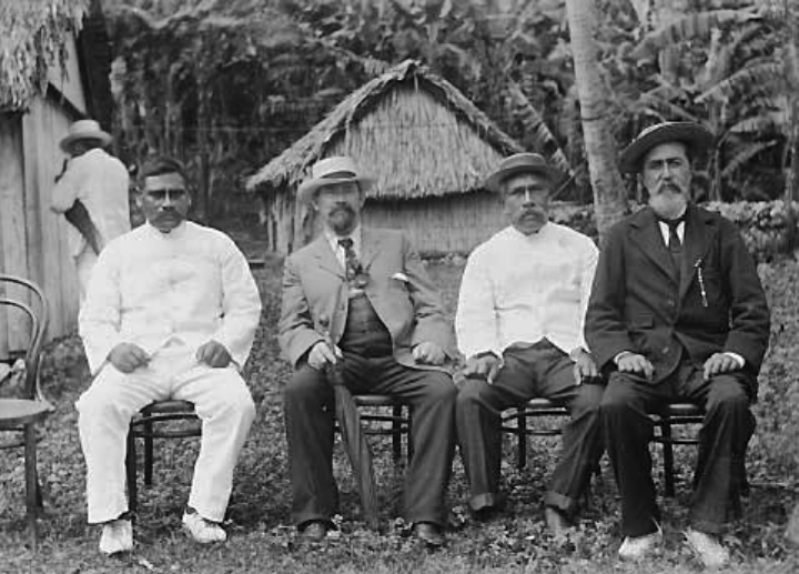 Nohoroa Ariki, Hon. C. H. Mills, "King" John Numangatini, and Pa Maretu Ariki, at Mangaia, Cook Islands.